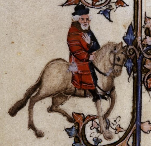 The Franklin in the Ellesmere manuscript of Geoffrey Chaucer's Canterbury Tales.